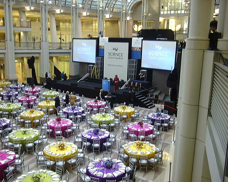 The Intel Science Talent Search finalist banquet, held at the Ronald Reagan Building in Washington, DC, in March 2002